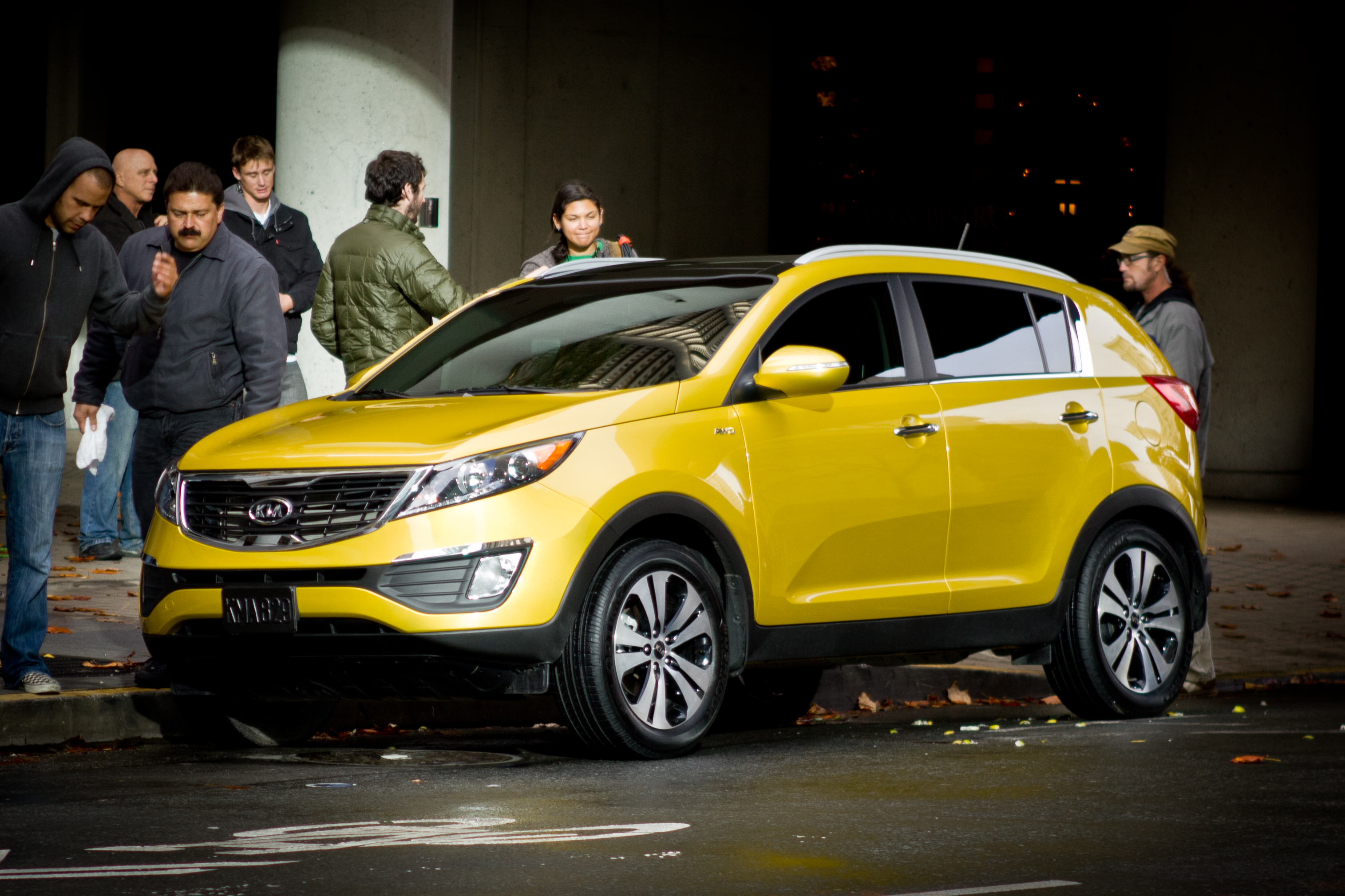 Kia Sportage 2011